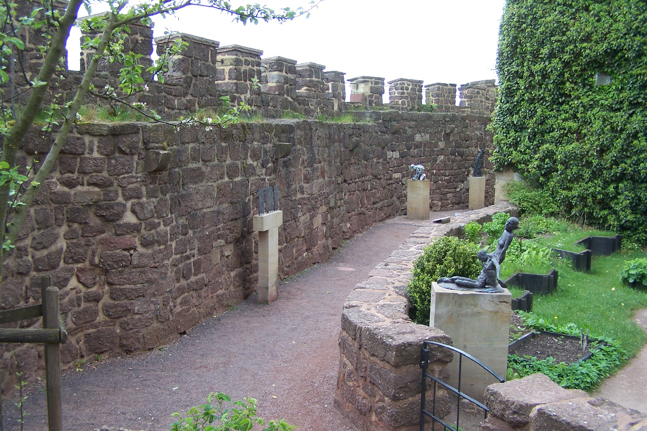 The battlement at Wartburg castle.